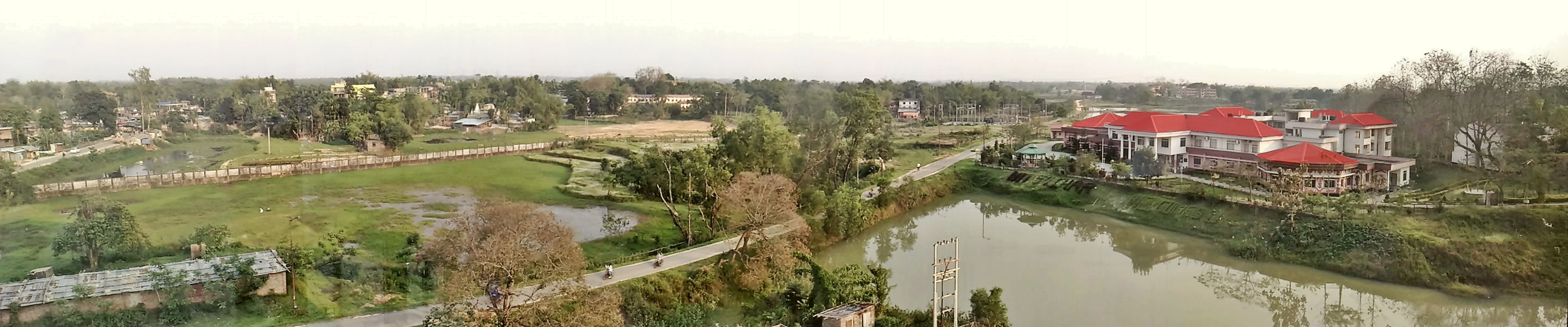 National Institute Of Technology, Silchar is one of the 31 NITs of India and was established in 1967 as a Regional Engineering College in Assam.